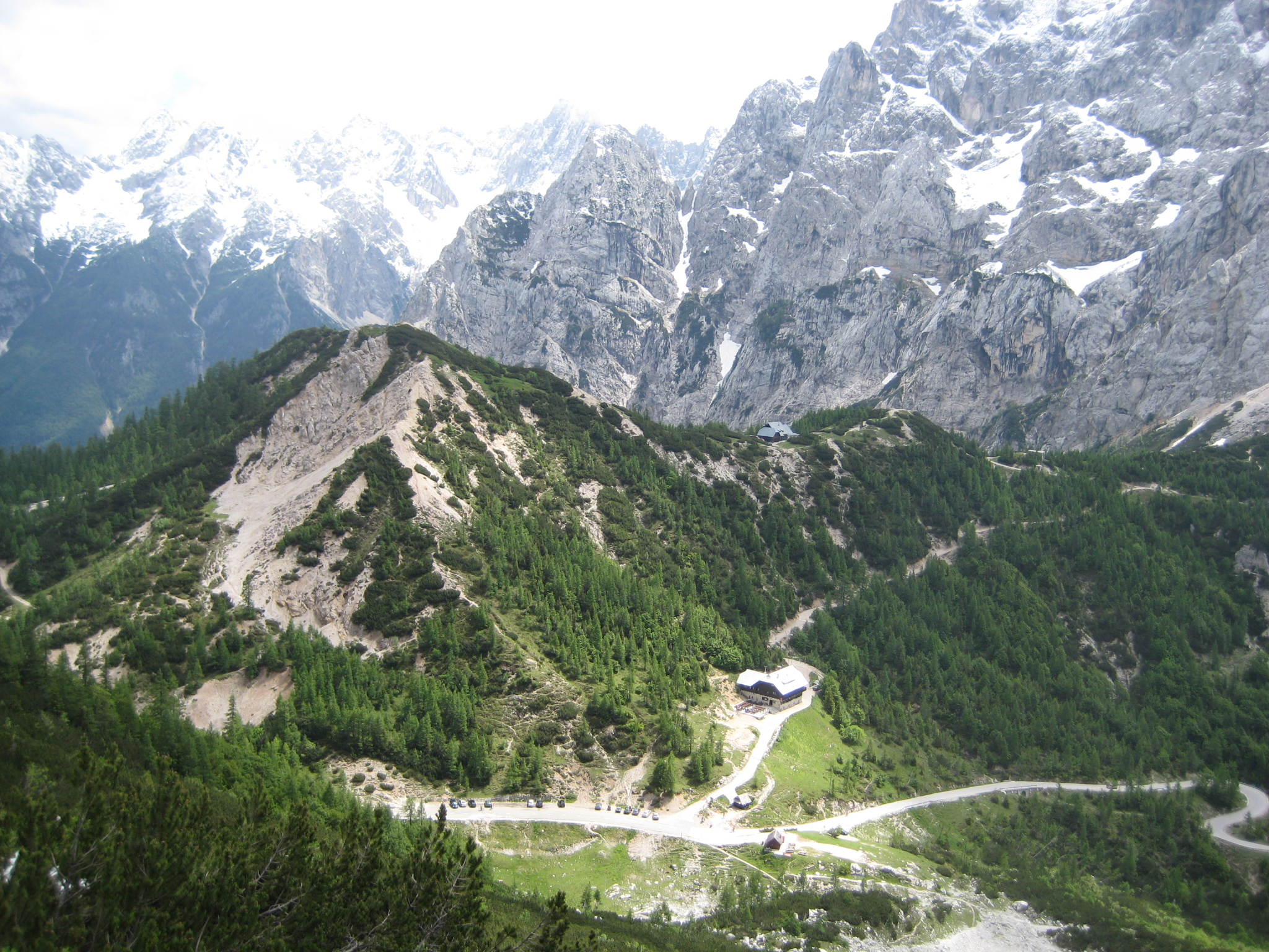 Vršič (or Vršič Pass) is the highest mountain pass in the Julian Alps in western Slovenia.